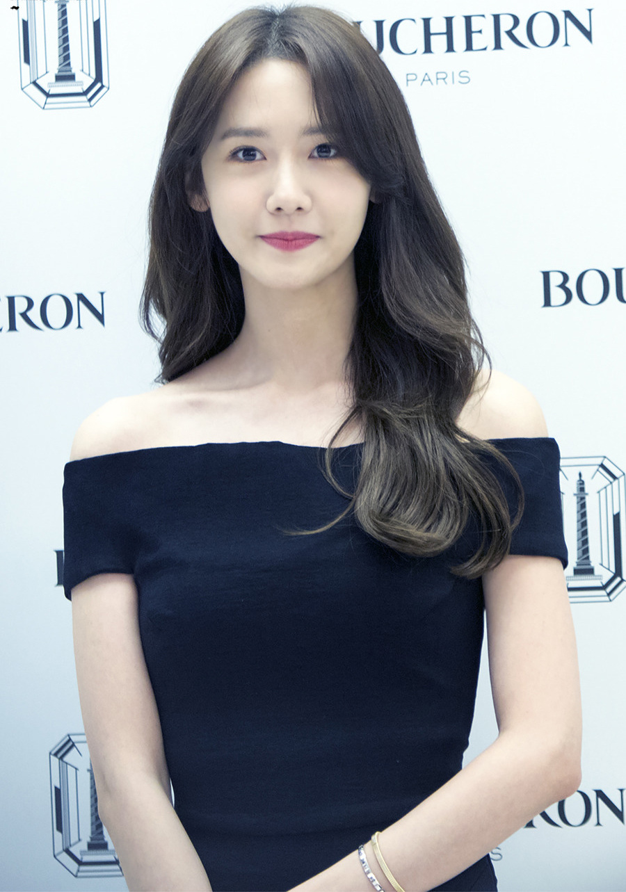 Im Yoon-ah attending a Bucheron event on November 22, 2016